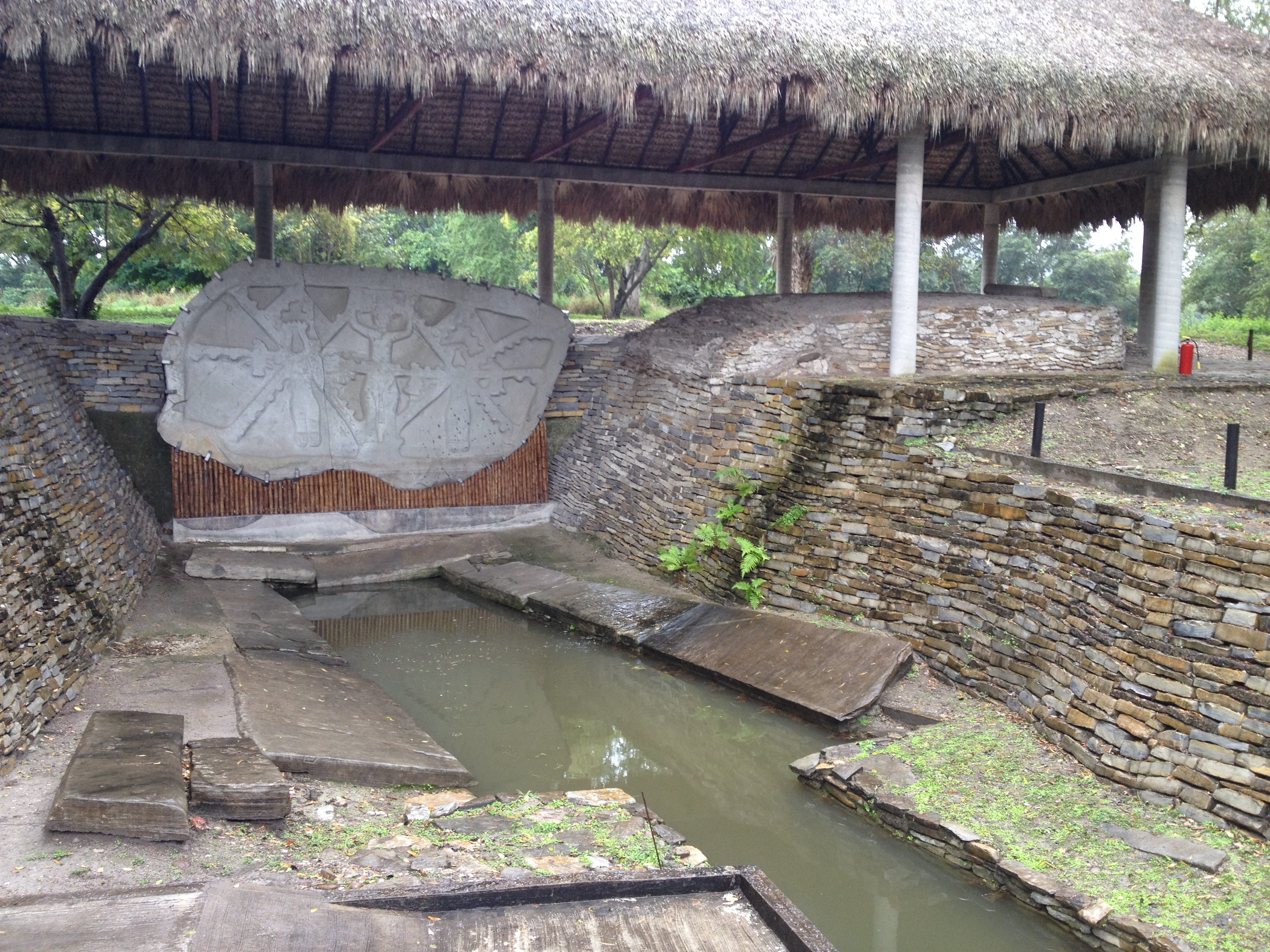 Canal del Manantial